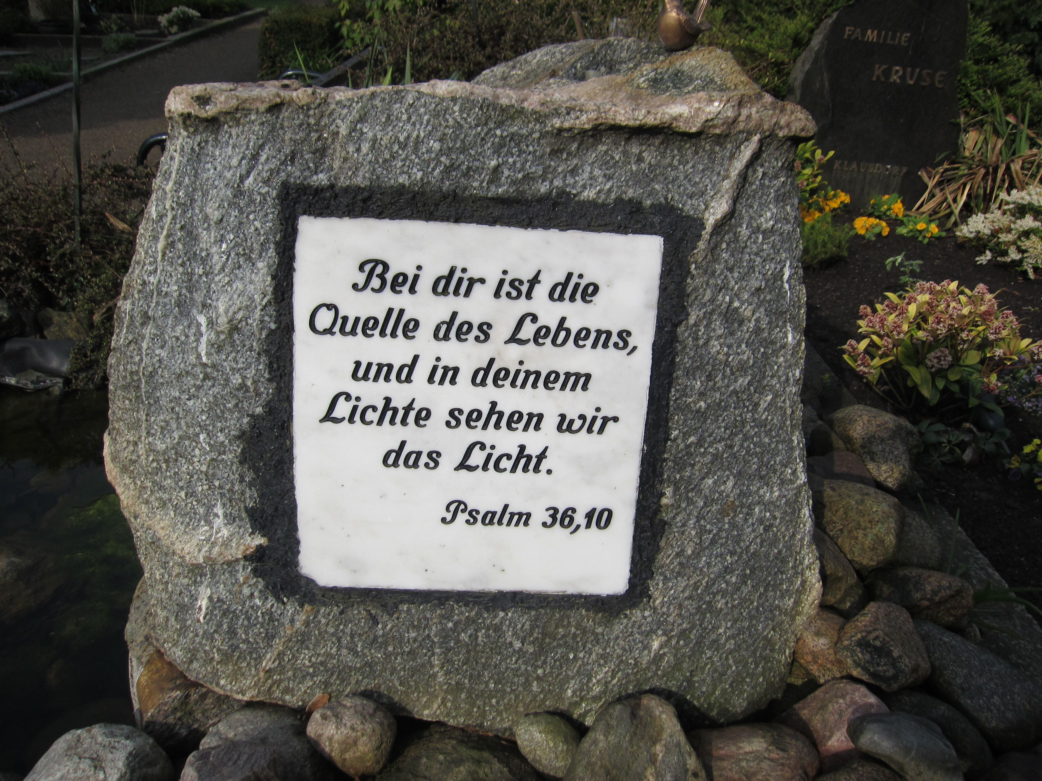 Headstone in Dänischenhagen